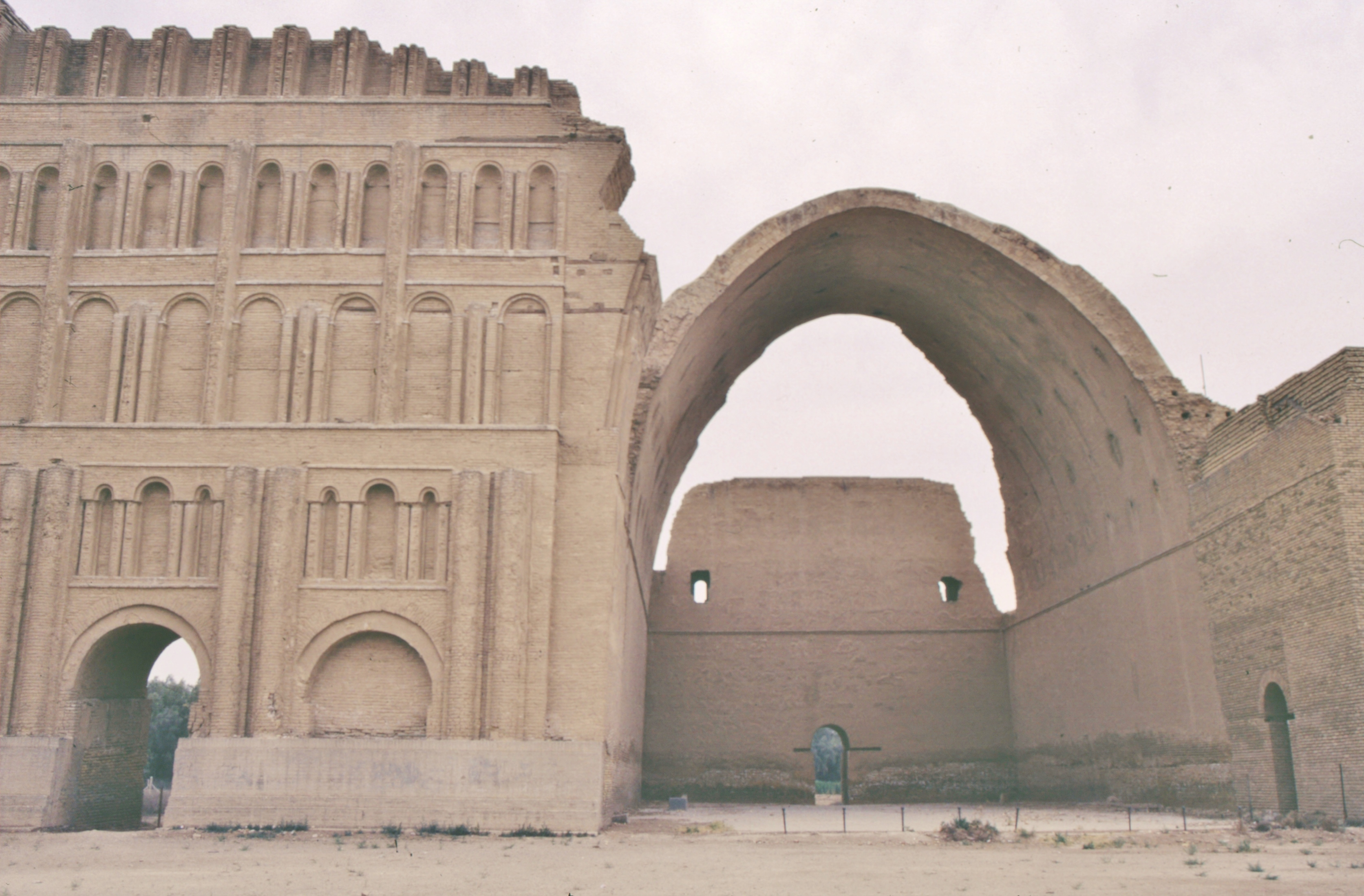 Ruins of Ctesiphon 1990